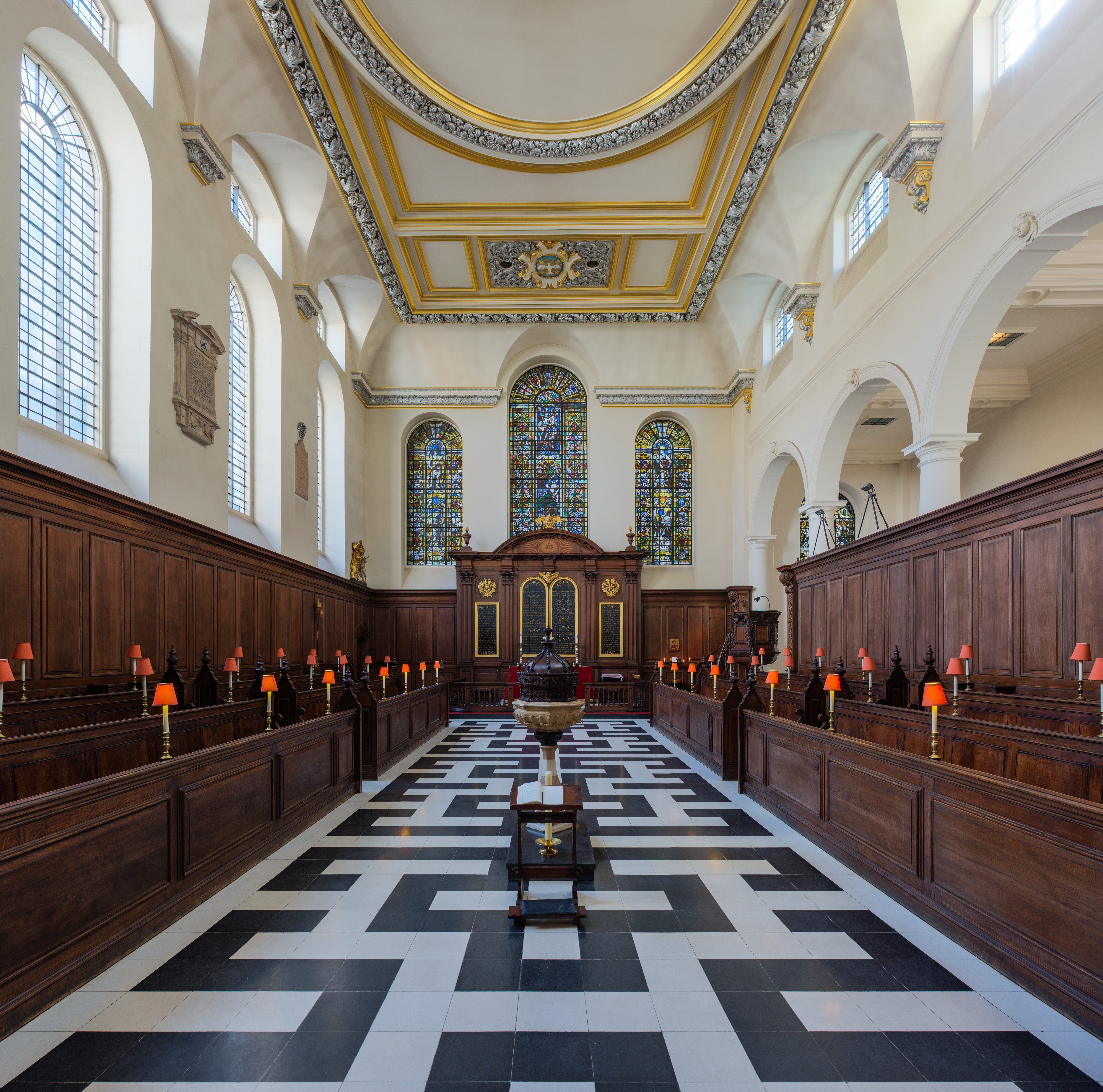 The interior of St Vedast Foster Lane Church, facing the altar and reredos.